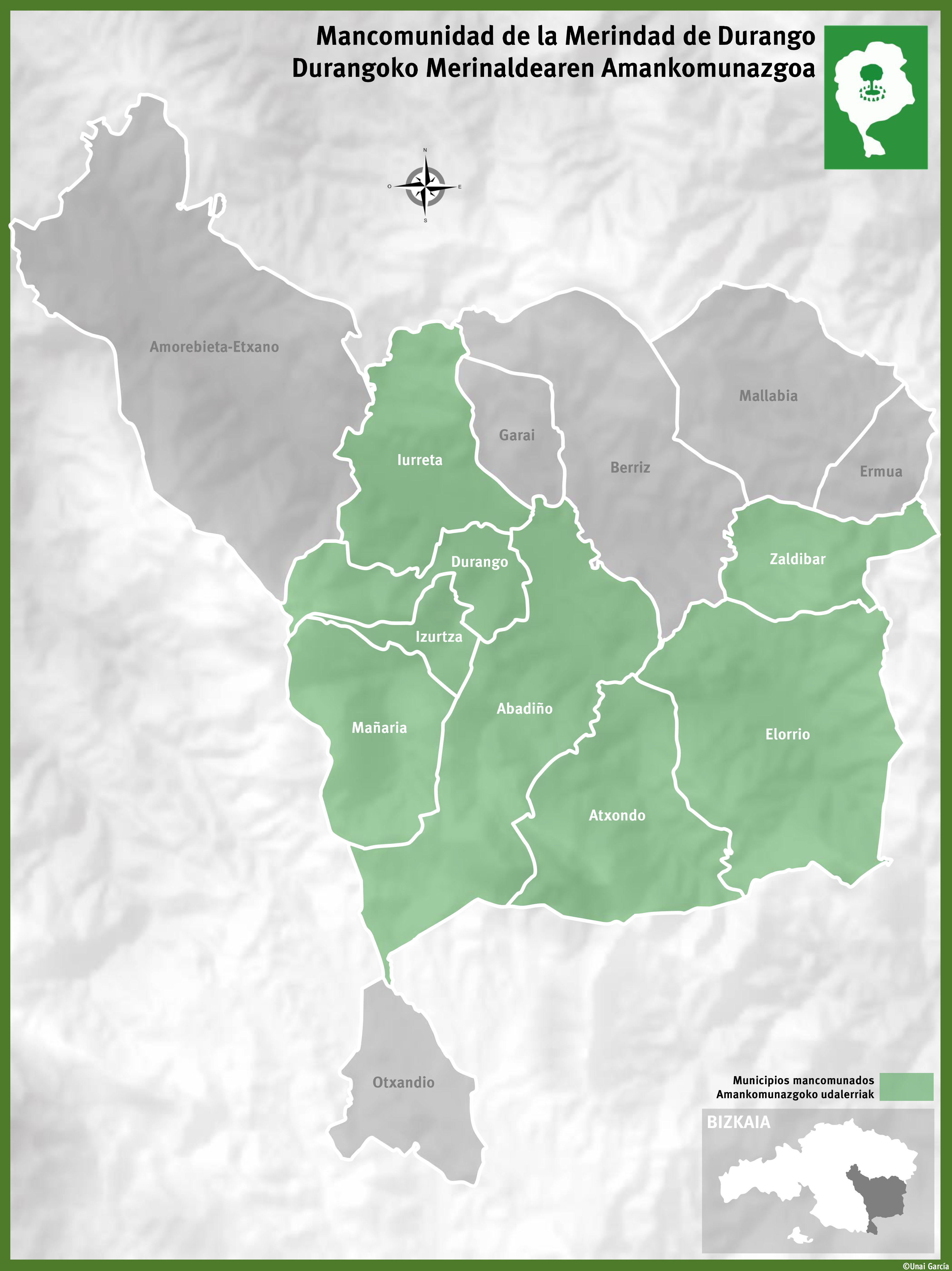 Durango County Mancomunity